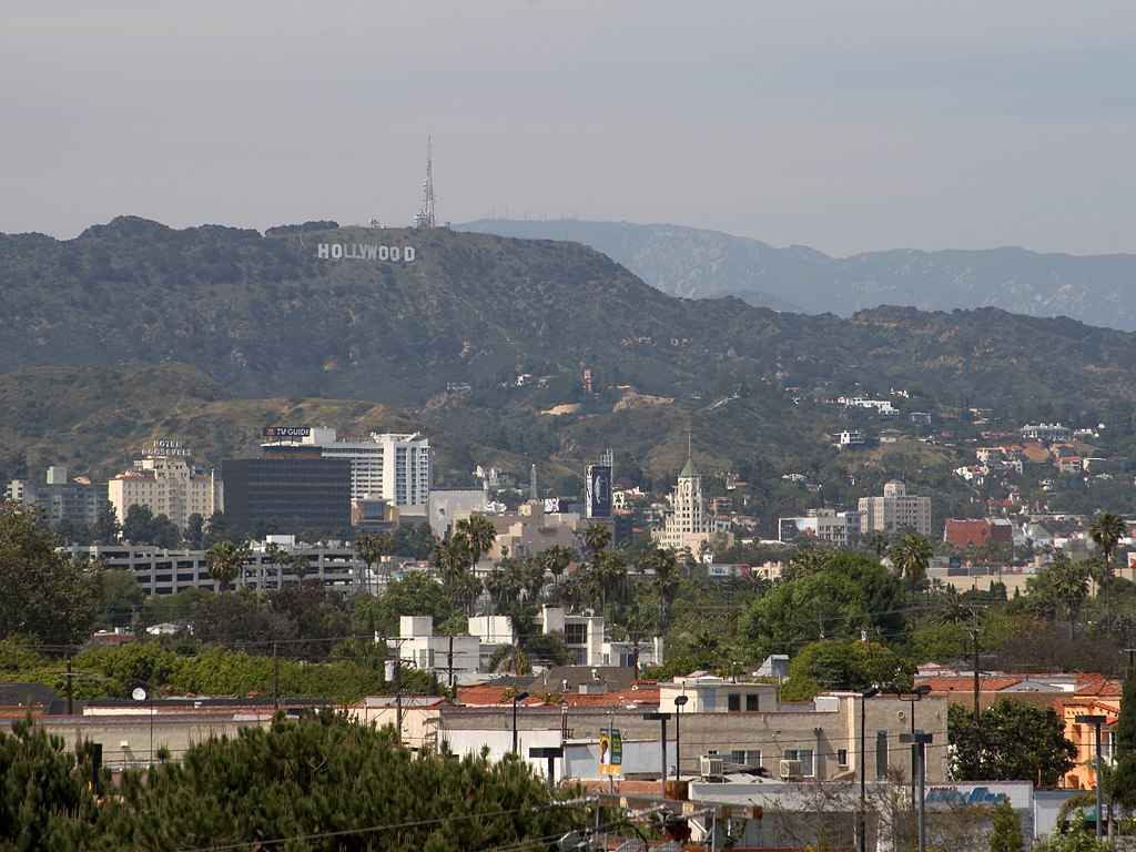 The Hollywood sign seen from the farmers market in los angeles.